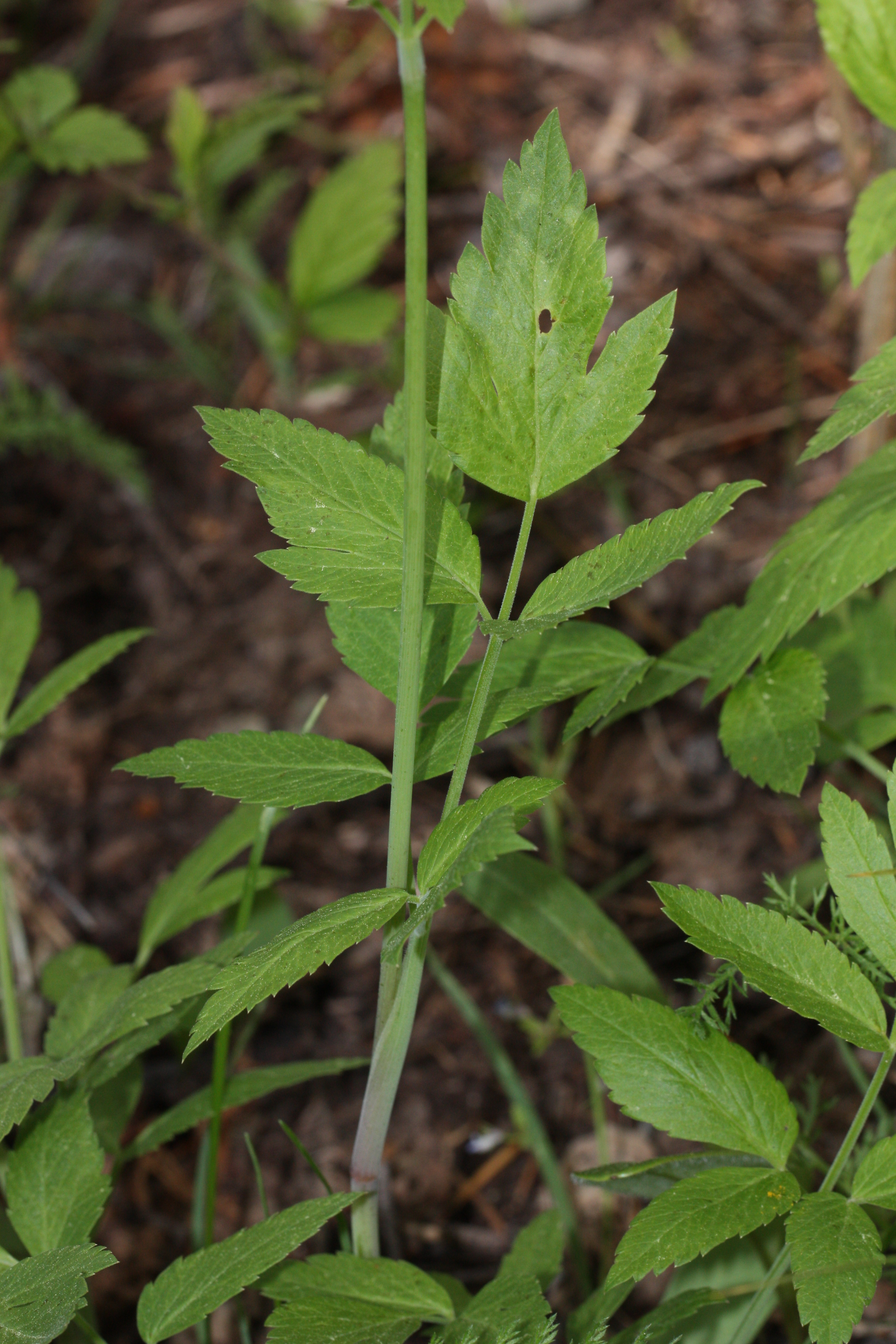 Western Sweet-cicely, Sierran Sweet-cicely Viewpoint location: Tronsen Ridge Trail #1204, Tronsen Ridge Viewpoint elevation: 1395 meter (4577 ft) Location source: Garmin GPSmap 60CSx Location Datum: WGS84